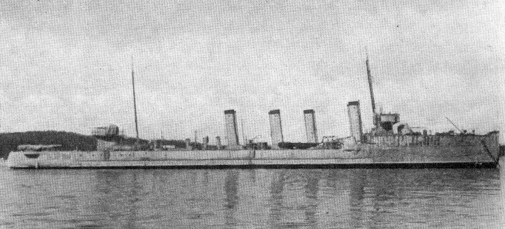 The Norwegian Draug class destroyer HNoMS Draug